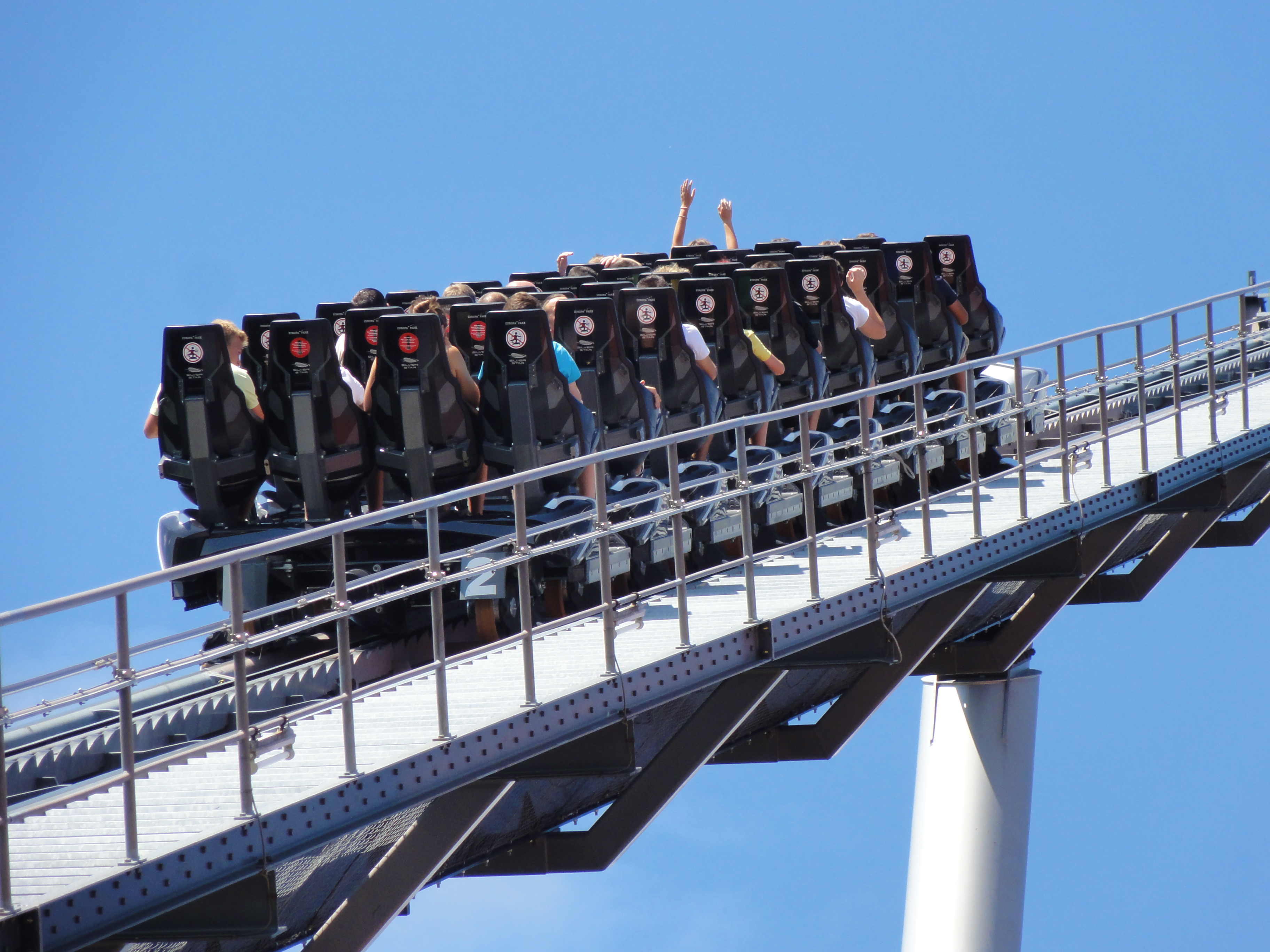 Silver Star, Europa-Park, Rust, Baden-Württemberg, Germany.